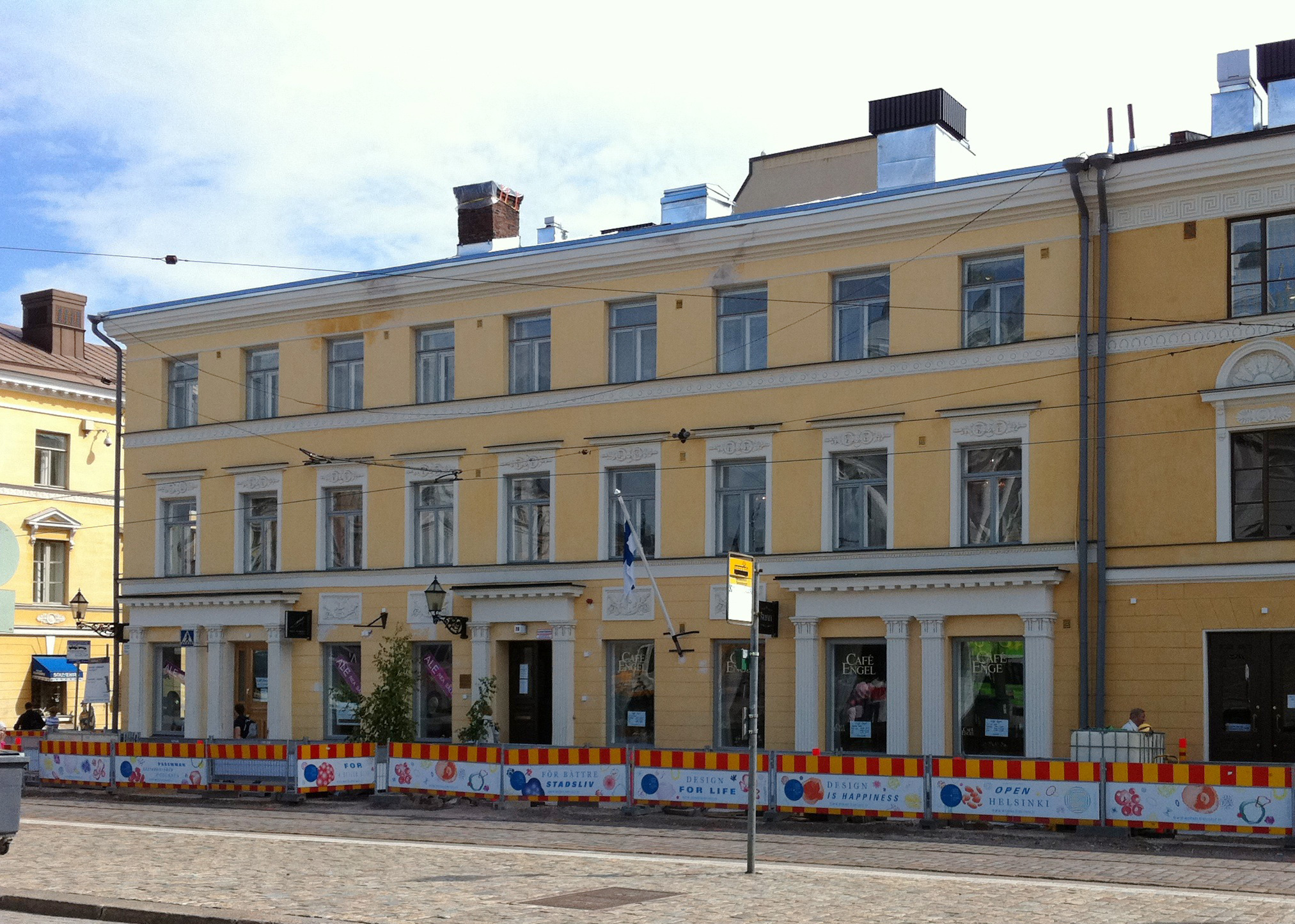 Sunn house, Aleksanterinkatu 26, Senaatintori, Helsinki